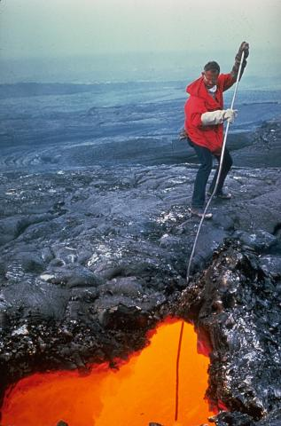 Lava tube on the flanks of Mauna Ulu, Kilauea, Hawaii, United States